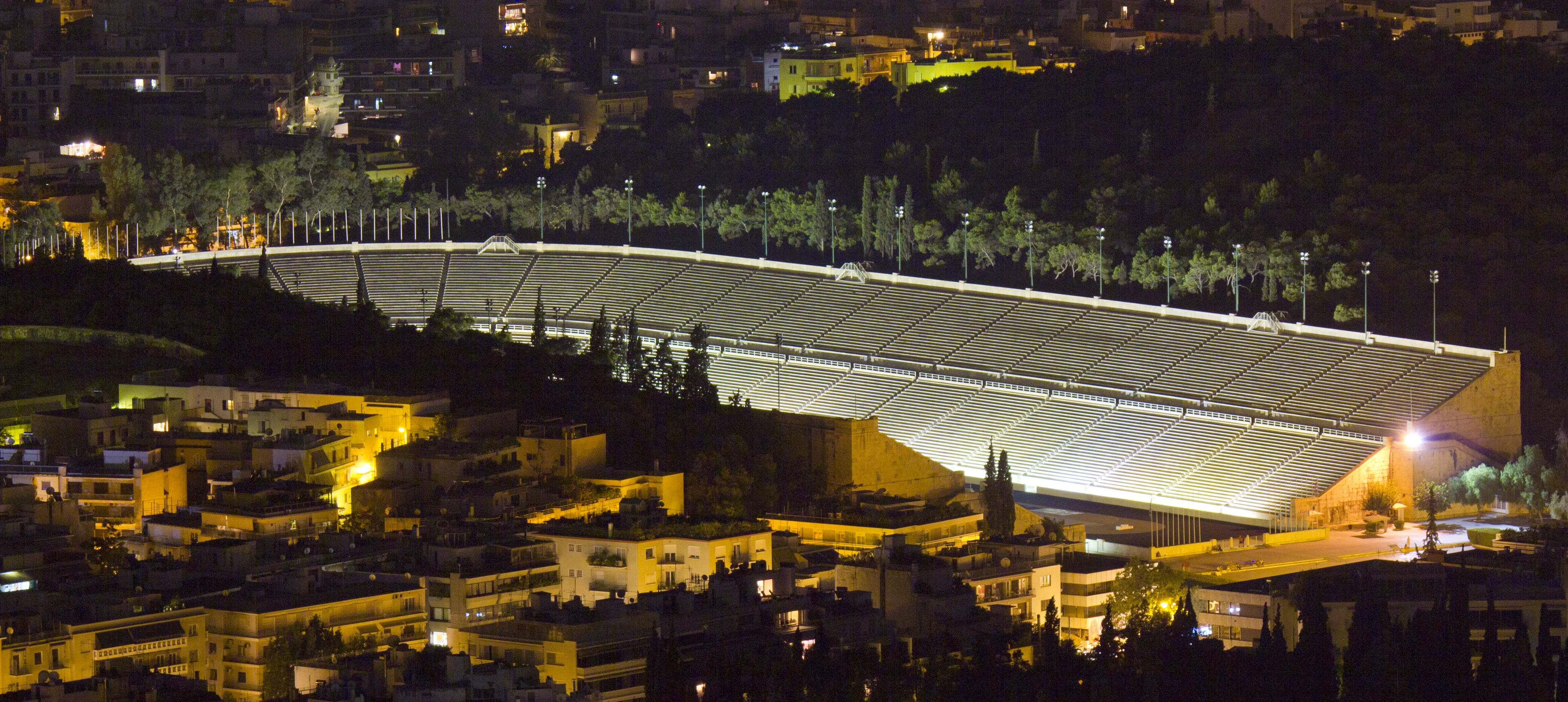 The Panathenaic Stadium in Athens, where the first modern Olympic Games were held in 1896